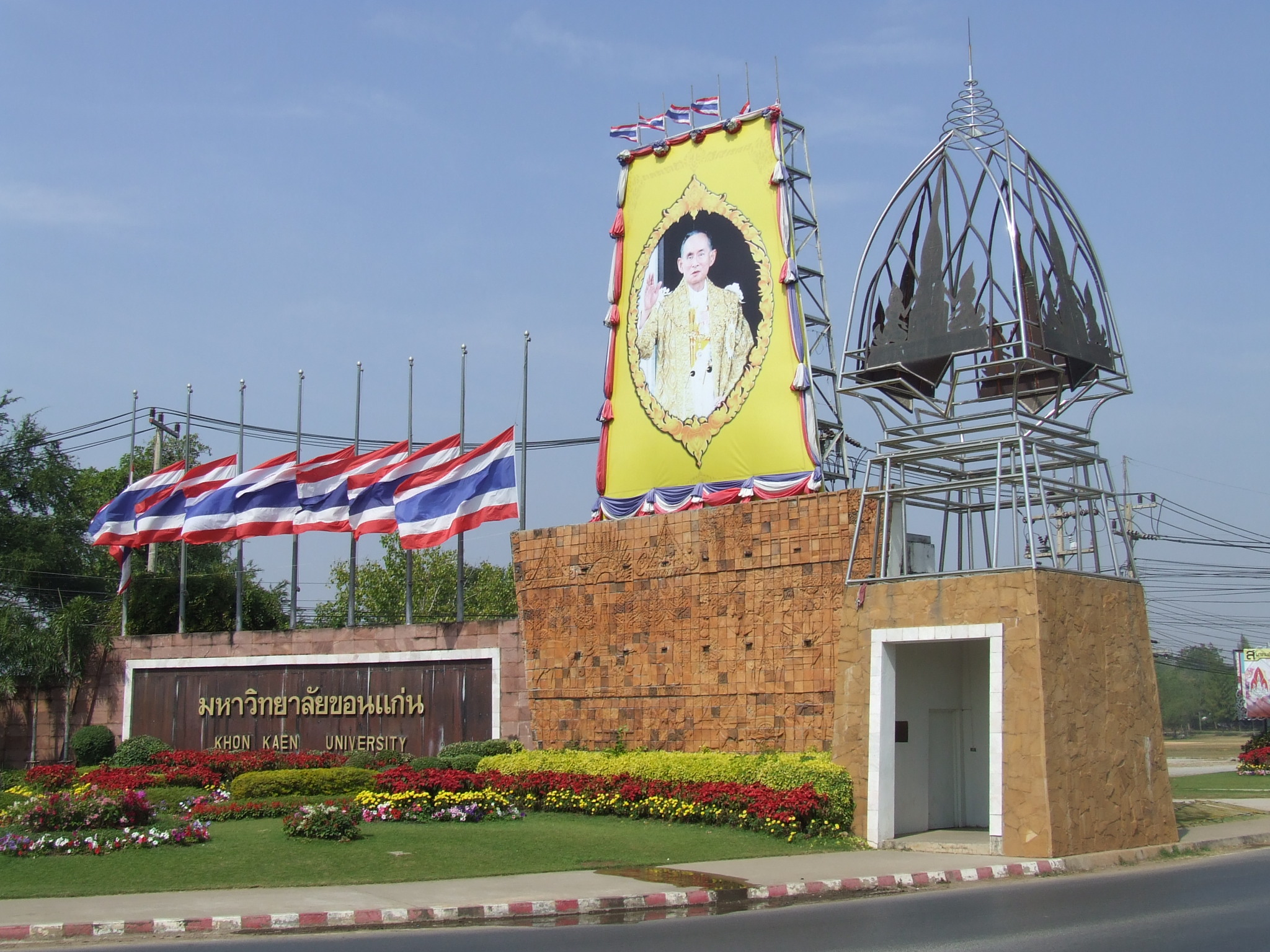 A picture of Khon Kaen University at Sithan Gate. In this picture, the flags of Thailand are half-staff for the death of HRH Princess Galyani Vadhana.